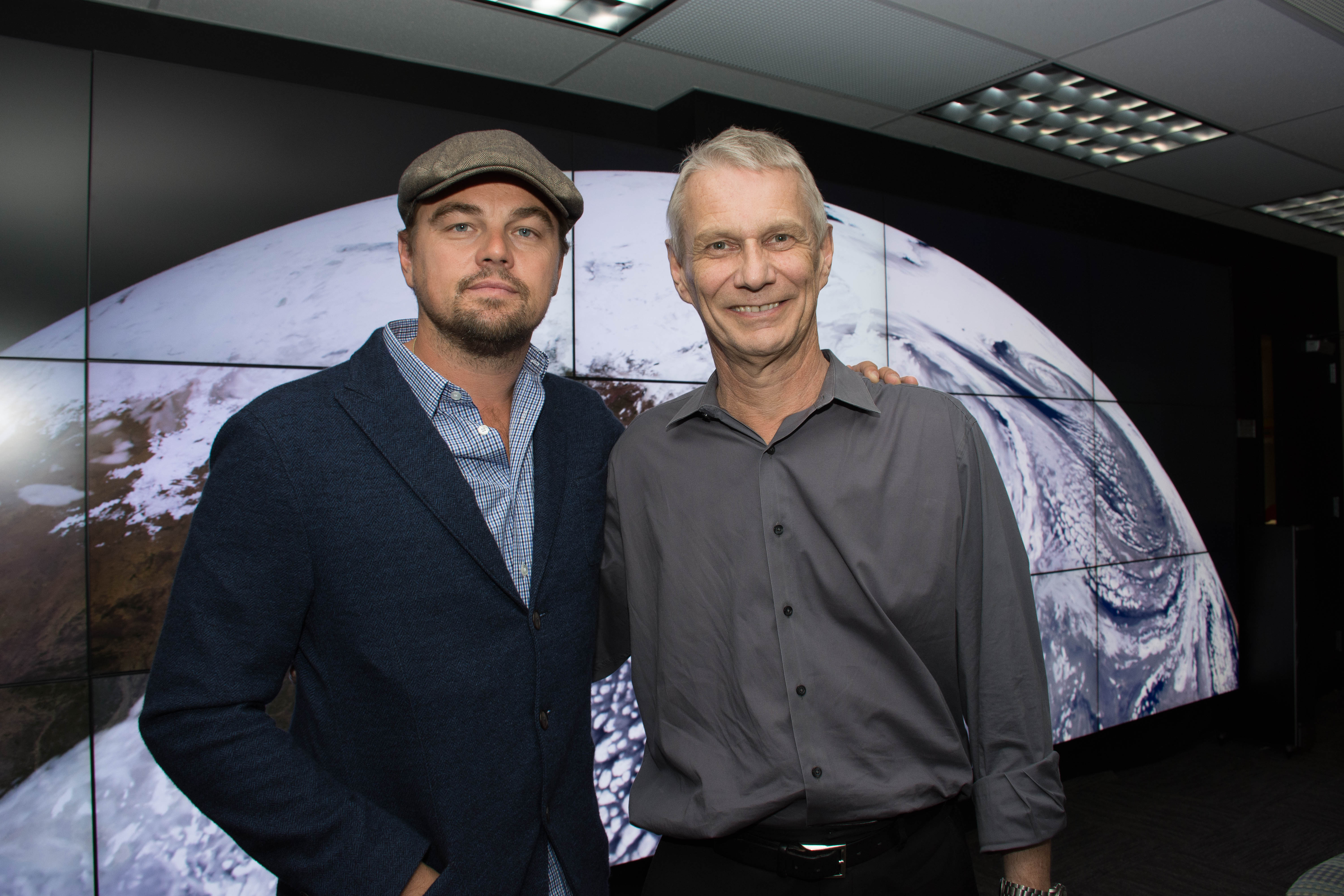 Academy Award®- winning actor and environmental activist Leonardo DiCaprio visited NASA’s Goddard Space Flight Center in Greenbelt, Maryland on Saturday, April 23, 2016. During his visit, Mr. DiCaprio interviewed Dr. Piers Sellers, an Earth scientist, former astronaut and current deputy director of Goddard’s Sciences and Exploration Directorate. The two discussed the different missions NASA has underway to study changes in the Earth’s atmosphere, water and land masses for a climate change documentary that Mr. DiCaprio has in production. Using a wall-size, high-definition display system that shows visual representations based on actual science data, Mr. DiCaprio and Dr. Sellers discussed data results from NASA’s fleet of satellites in Earth’s orbit. During his visit, Mr. DiCaprio also visited the facility holding NASA’s James Webb Space Telescope that is being developed as a large infrared telescope with a 6.5-meter primary mirror. The telescope will be launched on an Ariane 5 rocket from French Guiana in October of 2018, and will be a premier observatory of the next decade, serving thousands of astronomers worldwide.